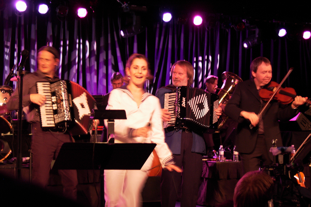 Benny Andersson Orchestra at a concert in Minnesota in 2006. Andersson is playing the accordion to the right.